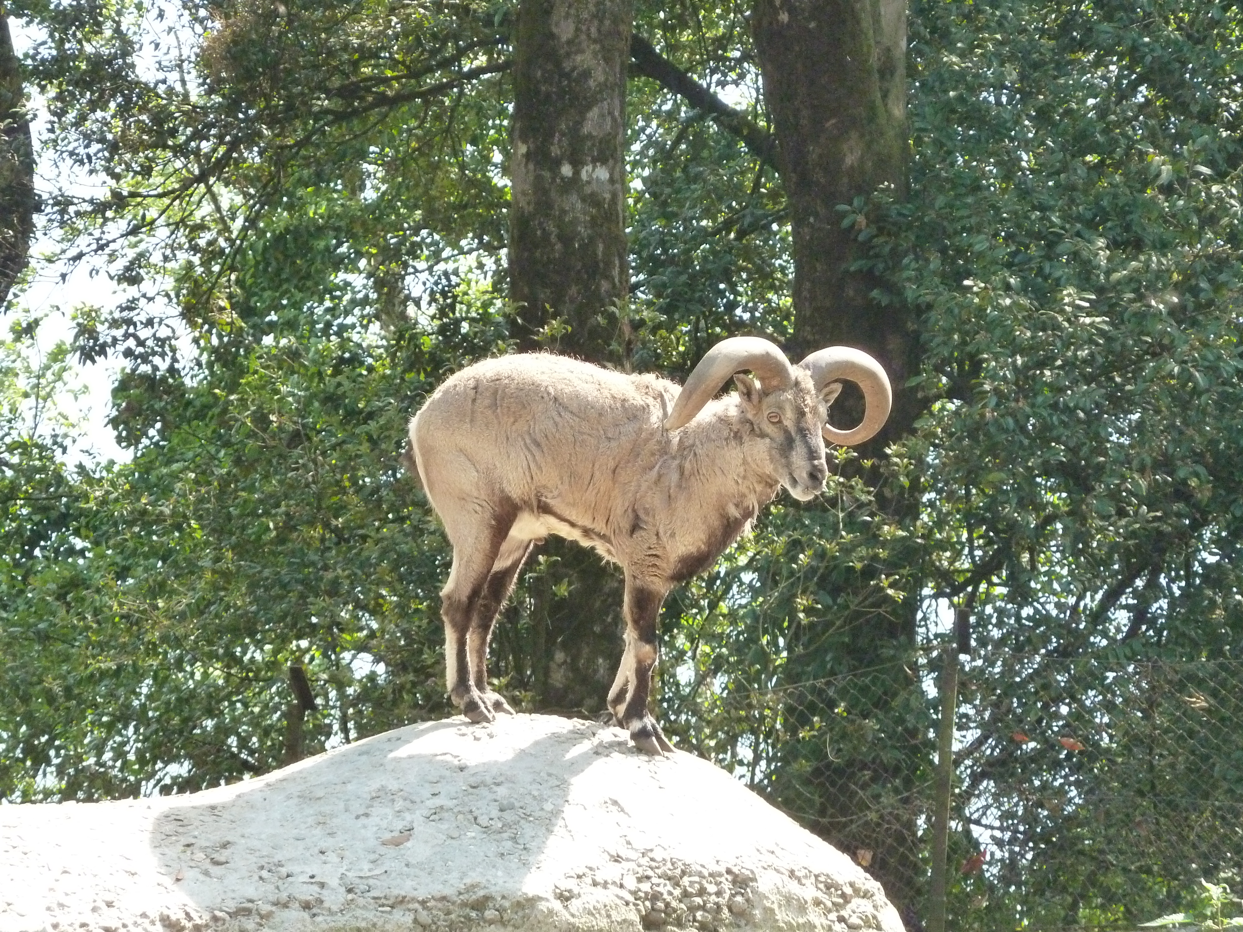 Pseudois nayaur is commonly know as Blue sheep or Bharal is a small rough-haired cylindrical horned rumiant native to himalayas. Found in the forest of Himalayas usually between 1000-4000 m in elevation.